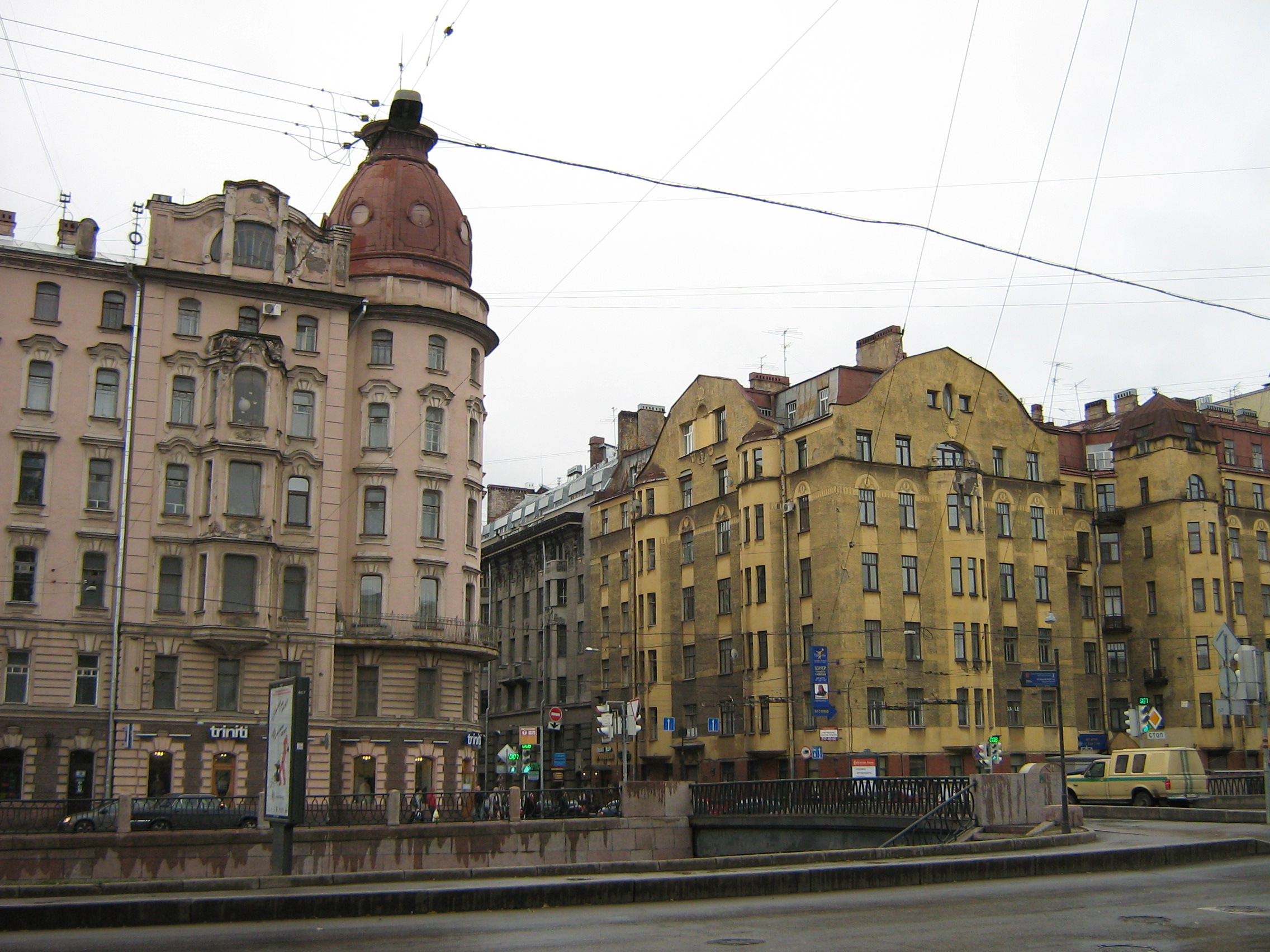 Karpovka embankment near Petropavlovskiy bridge (Sain-Petersburg, Russia), with buildings numbers 6 and 8 (Bolshoy Prospekt of the Petrograd Side, numbers 83 and 106, respectively).